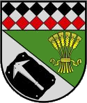 Coat of arms of Laubach